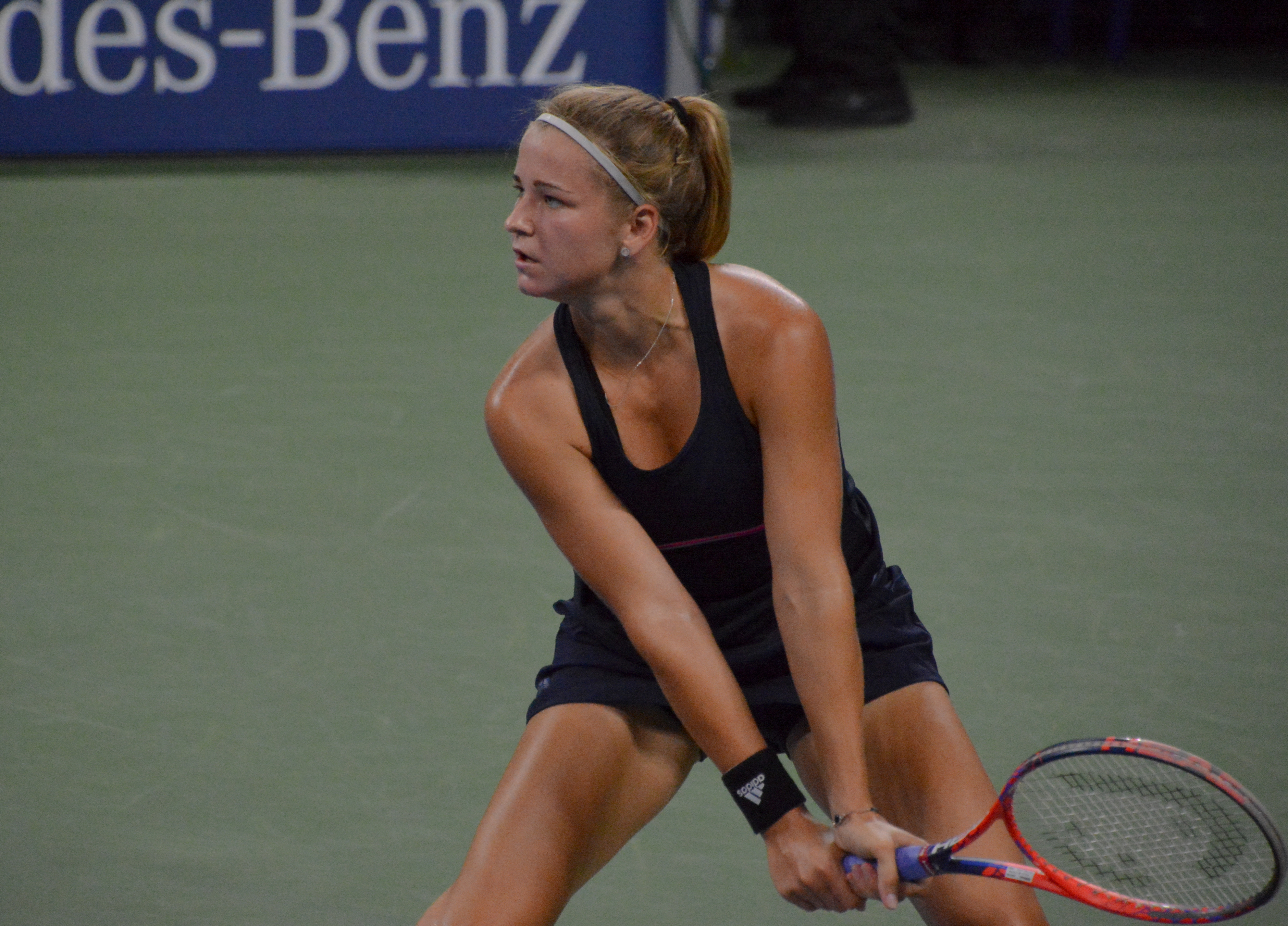 Qualifier Karolina Muchova during her 2nd round win over 12th seed Garbiñe Muguruza, 3-6, 6-4, 6-4. Day 3 of US Open 2018.